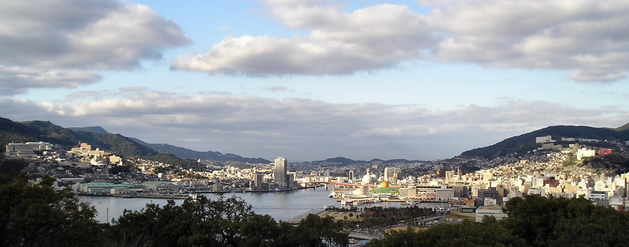 Panorama view of Nagasaki from Glover Garden.